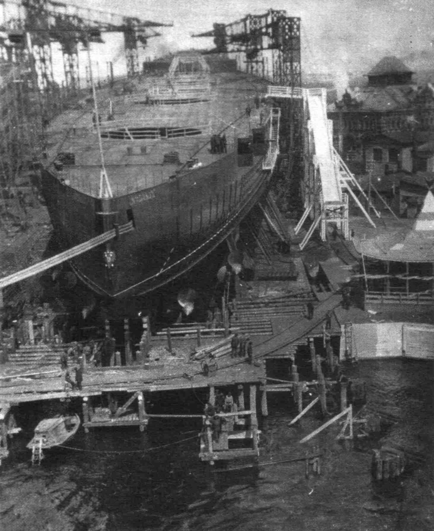 Battlecruiser Izmail at Baltic factory in Petrograd.